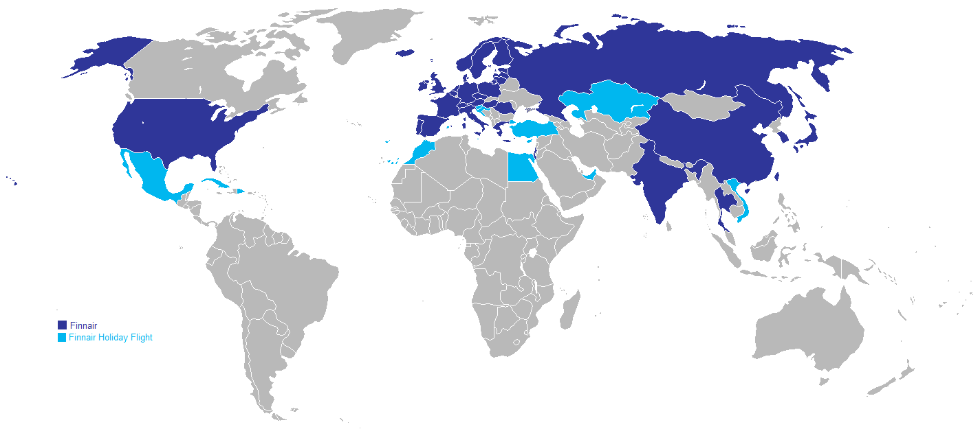 Finnair destination map. Light blue is Leisure flight, dark blue is finnair normal flight.